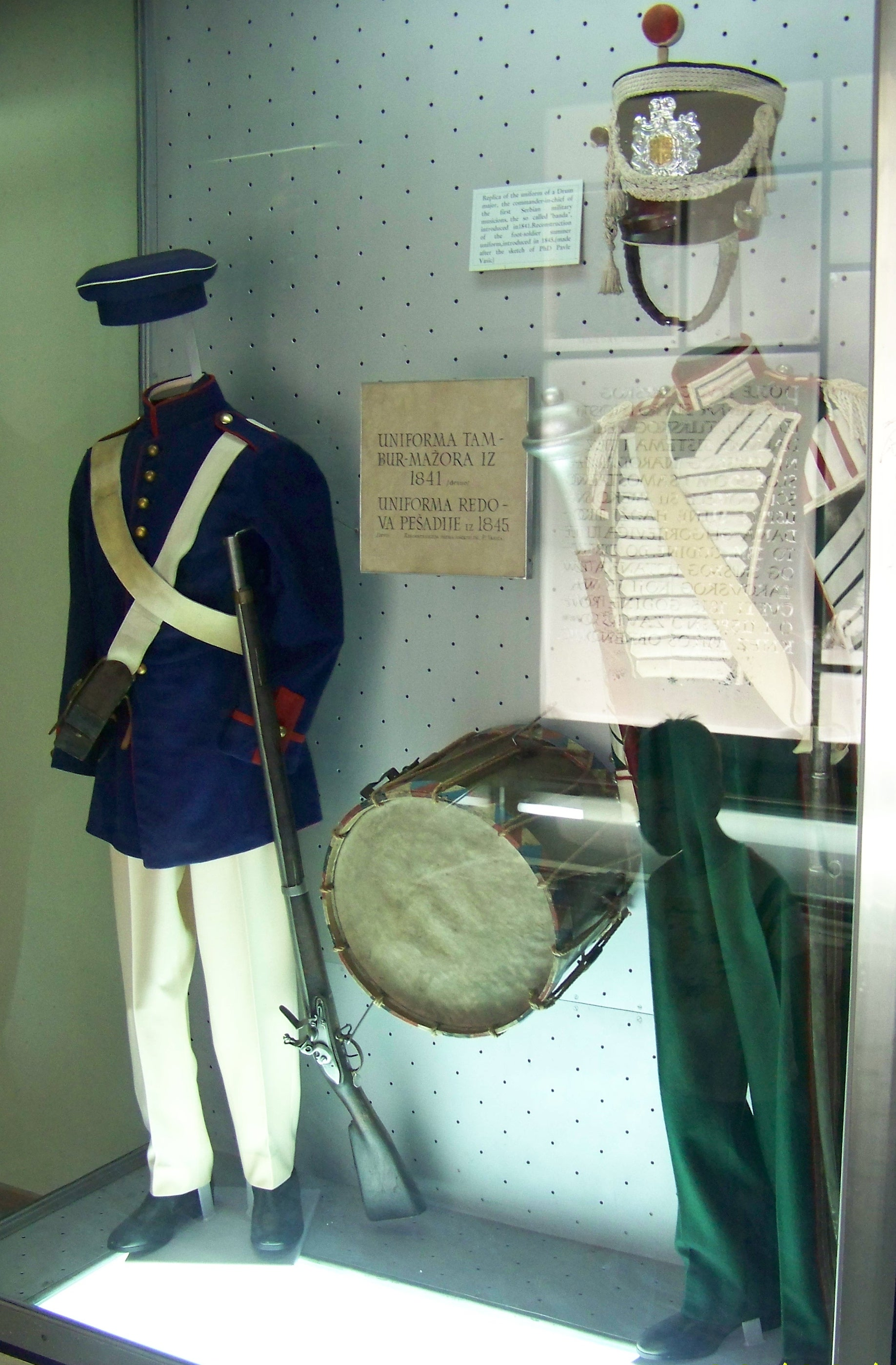 Serbian army uniforms, 1841-1845.